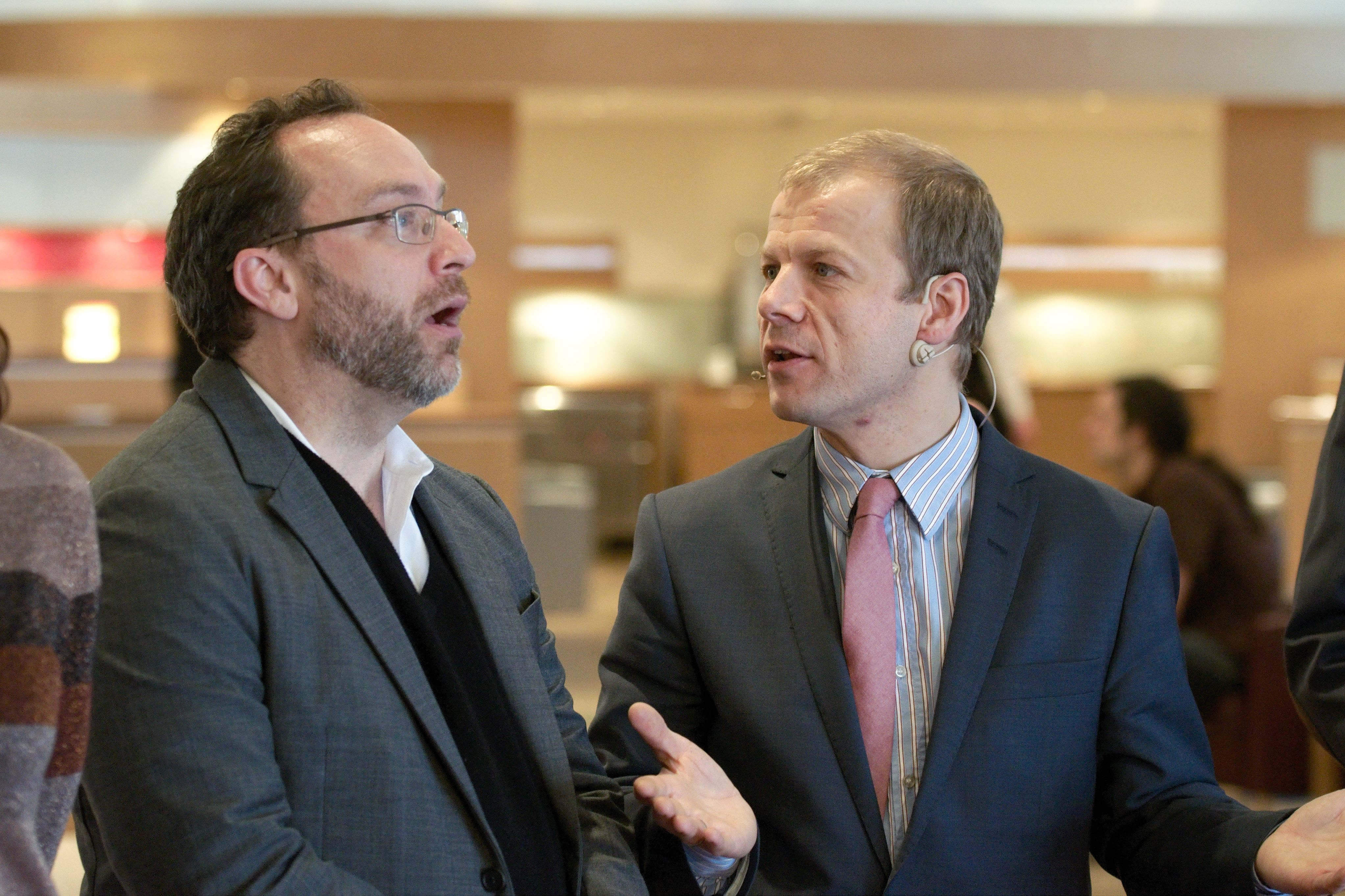 Wikipedia Academy Oslo 2012